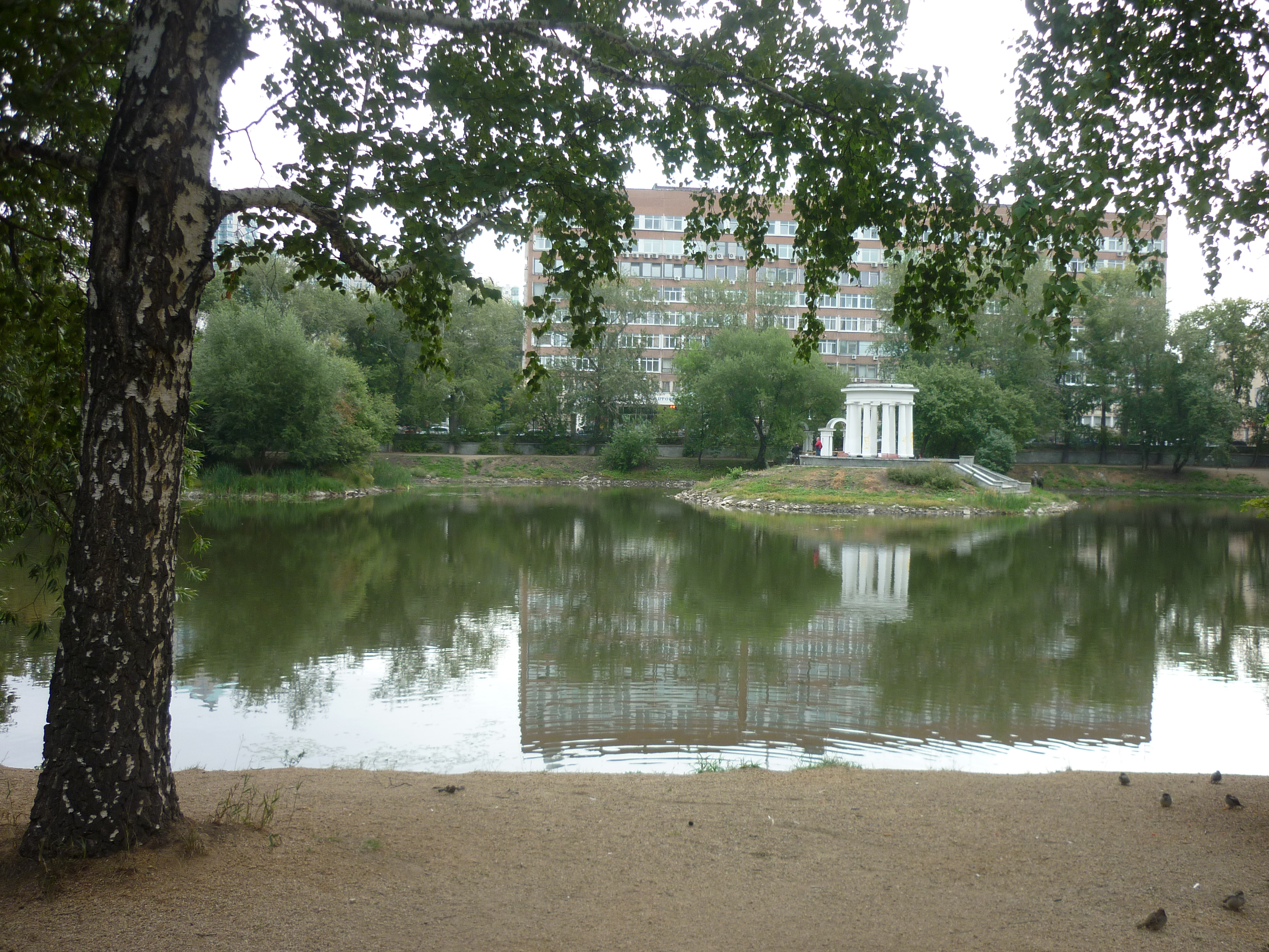 Artificial pond at Rastorgujev-Kharitonov Estate, Yekaterinburg